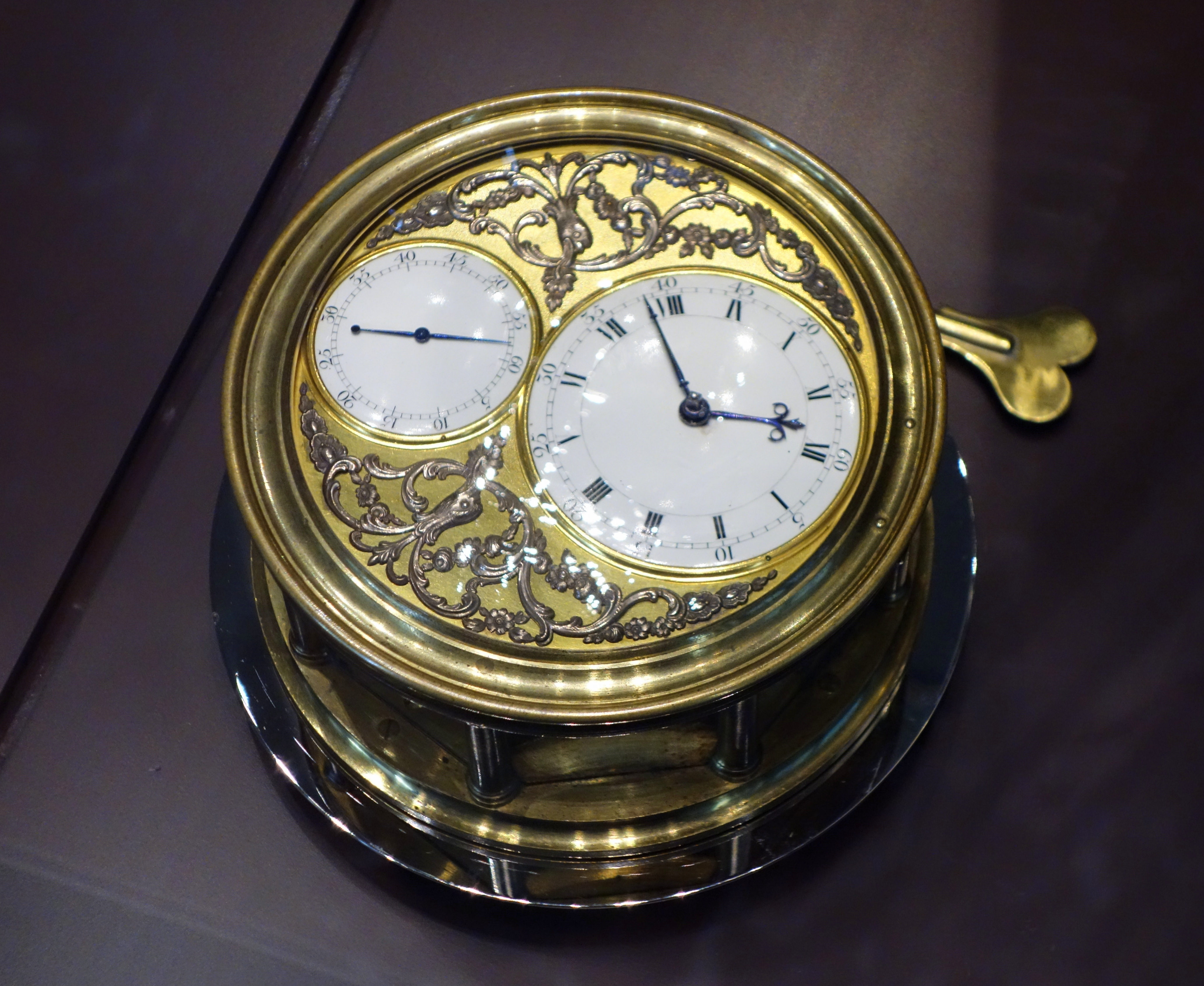 Exhibit in the Mathematisch-Physikalischer Salon (Zwinger), Dresden, Germany. This artwork is old enough so that it is in the public domain.